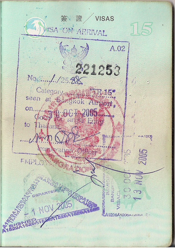 A Thailand visa on arrival on Taiwan passport